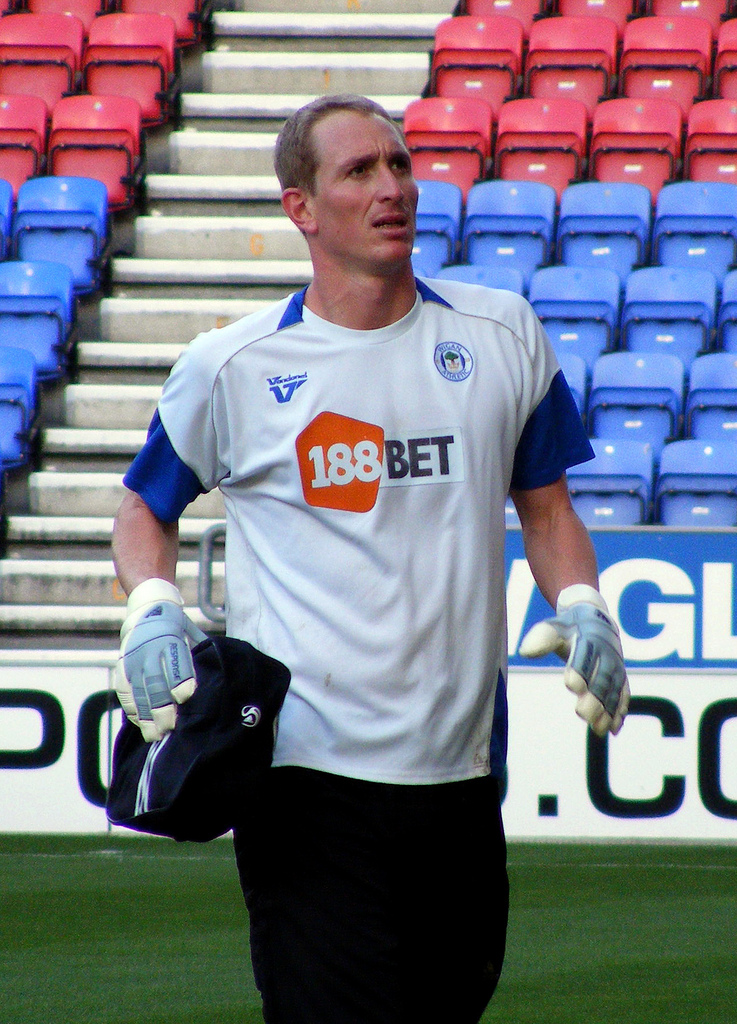 Chris Kirkland, Wigan Athletic v Real Zaragoza, 4 August 2010